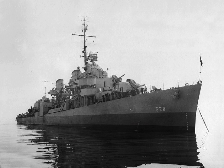 The U.S. Navy destroyer USS Mullany (DD-528) off the Hunters Point Naval Shipyard, San Francisco, California (USA), on 6 January 1945.